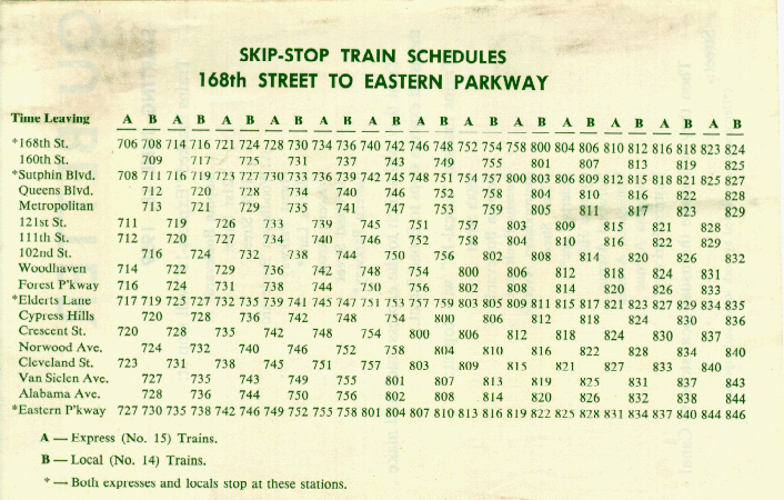 This brochure describes the introduction of A/B skip-stop service on the No. 14 and No. 15 services of the BMT Jamaica Line on June 18, 1959.